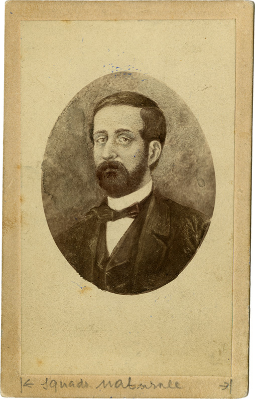 Portrait of Michele Puccini, composer (1813-1864). Photo by unknown, before 1864.